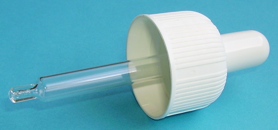 Drop counter.